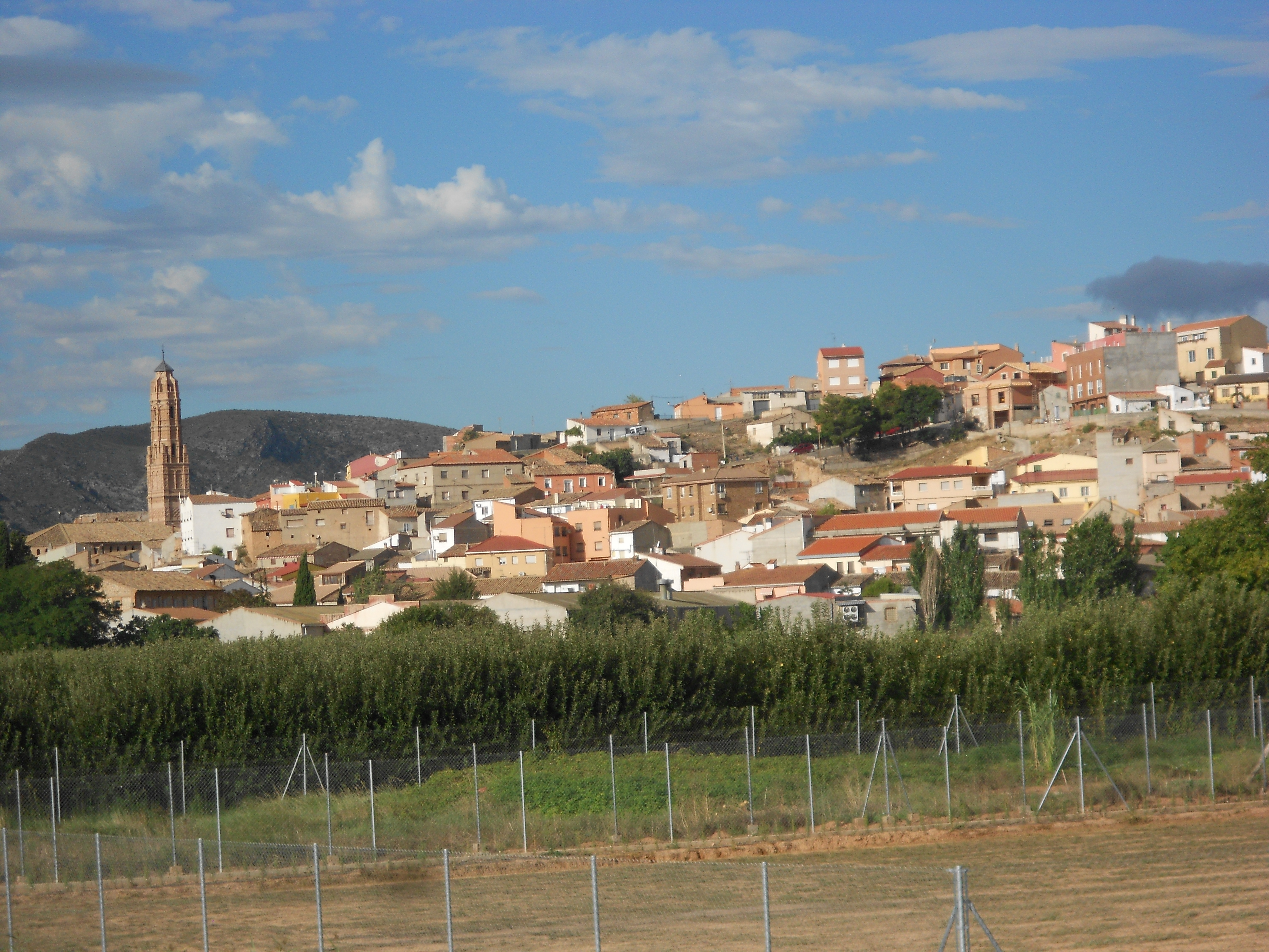 Panaromic view of Ricla (Aragón, Spain)